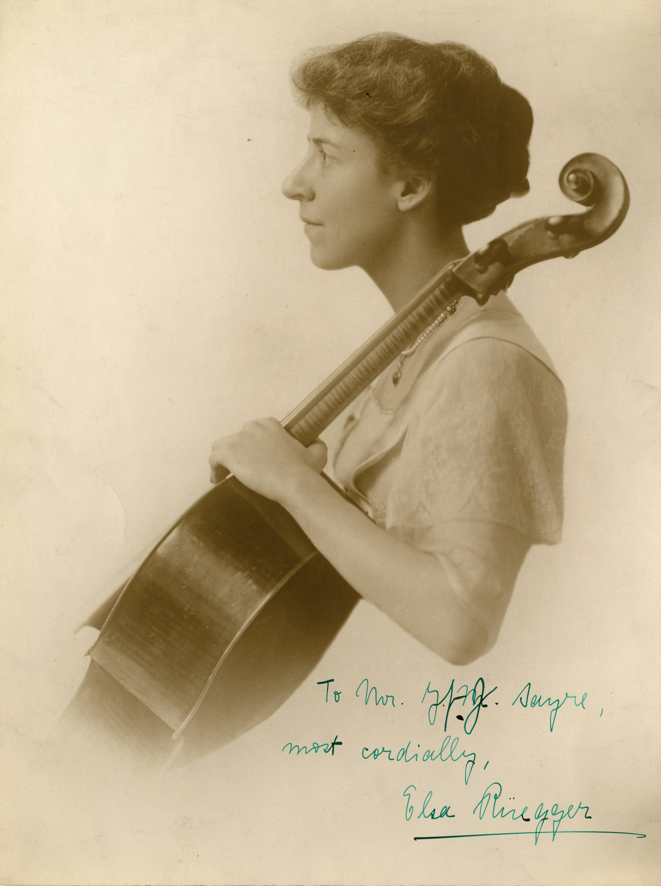 Elsa Ruegger, Belgian cellist Subjects: musicians